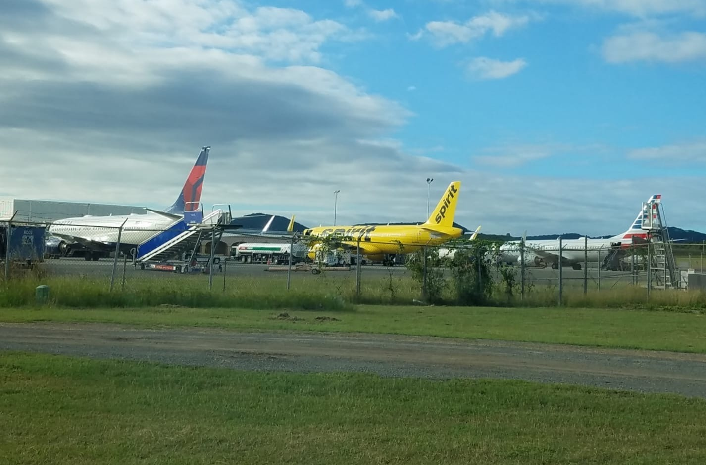 Commercial aircraft on Henry E Rohlsen airport tarmac.